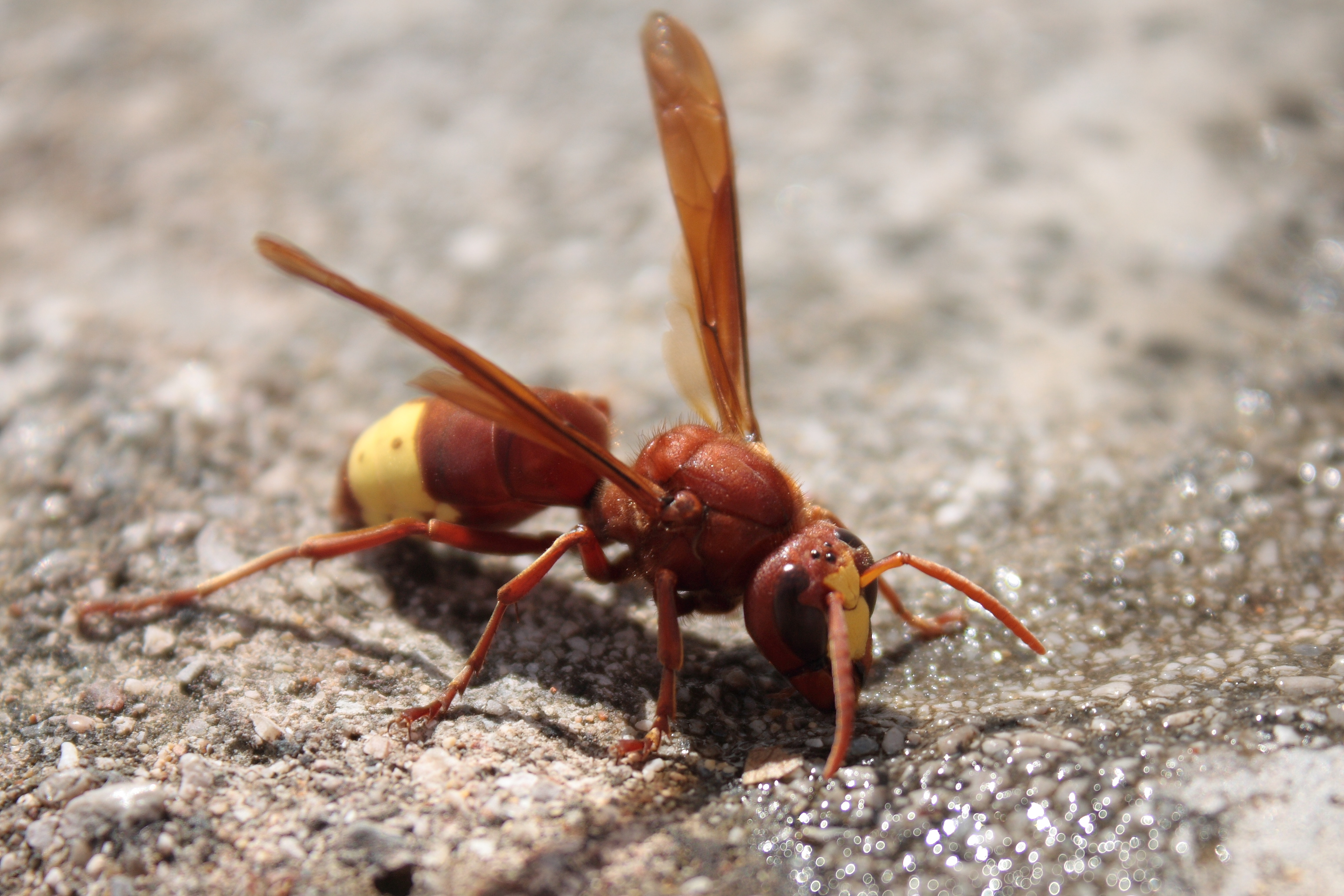 An oriental hornet (Vespa Orientalis) landed on a street in Lindos, Rhodes, Greece.